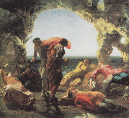 A Scene from the Tempest